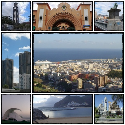 Main Entrance of the Mercado de ntra. sra. de Africa en Santa Cruz de Tenerife